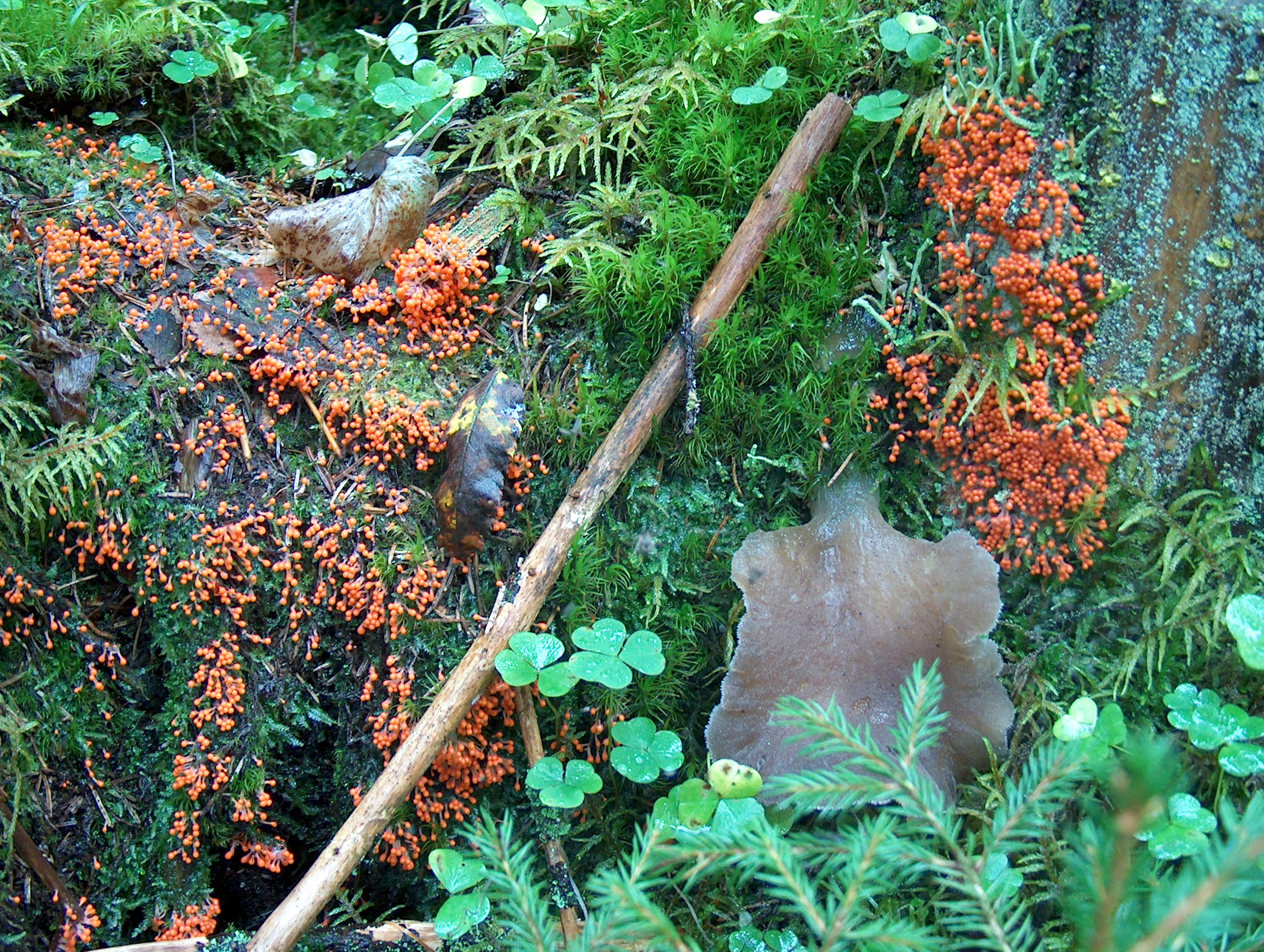 Trichia decipiens in Kerava, Finland